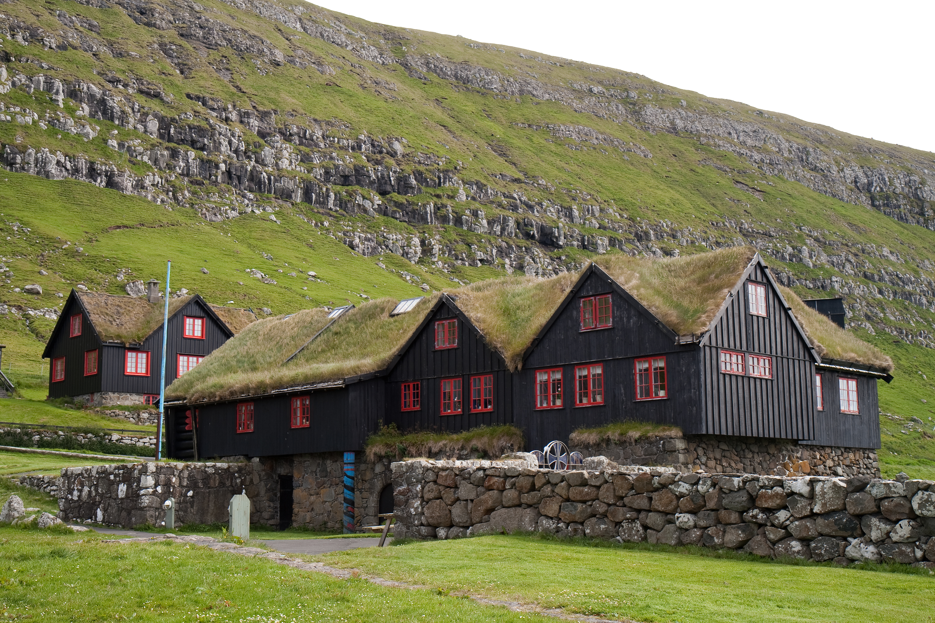 Kongsgården